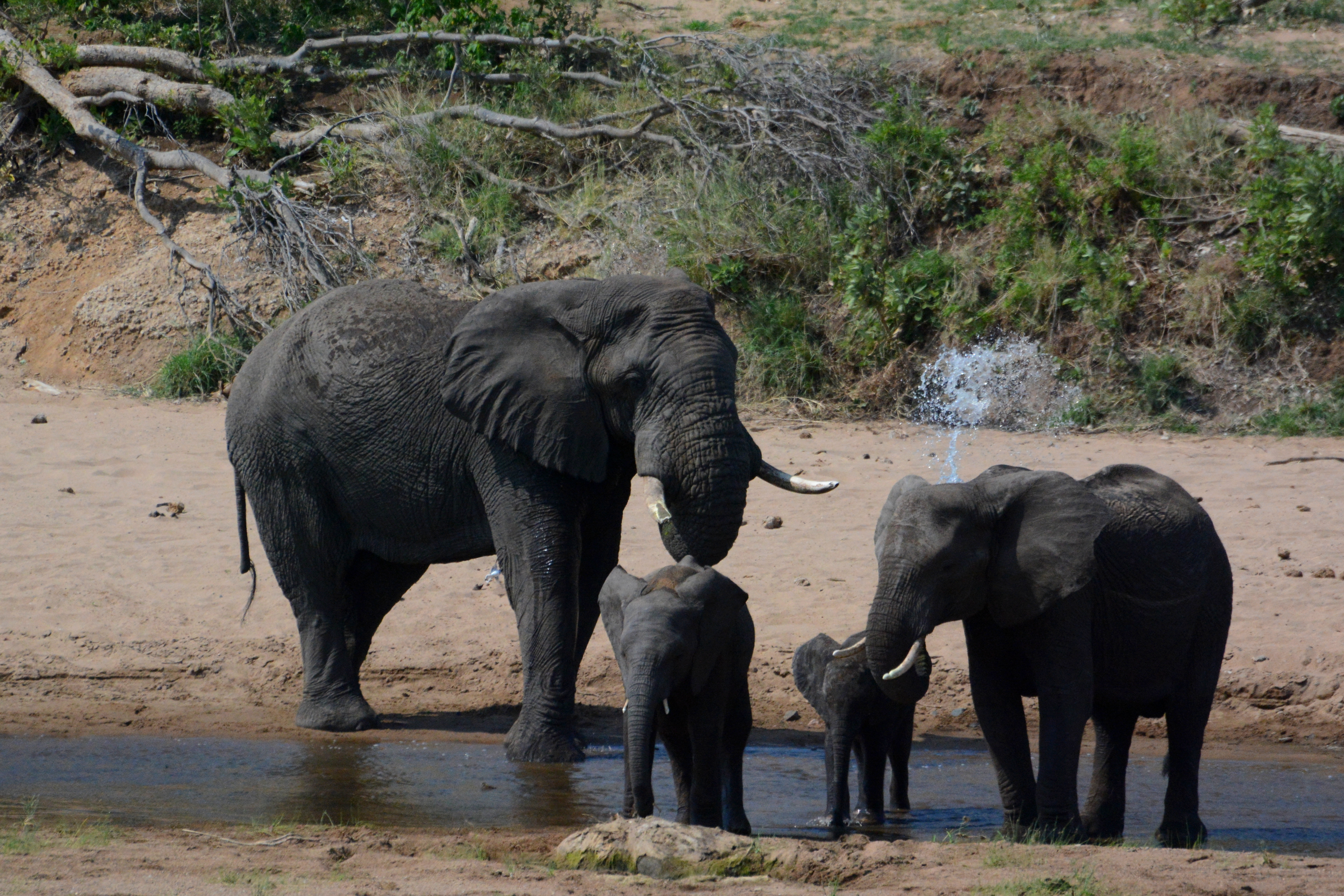 Picture of bathing Elephants, taken in Kruger National Park